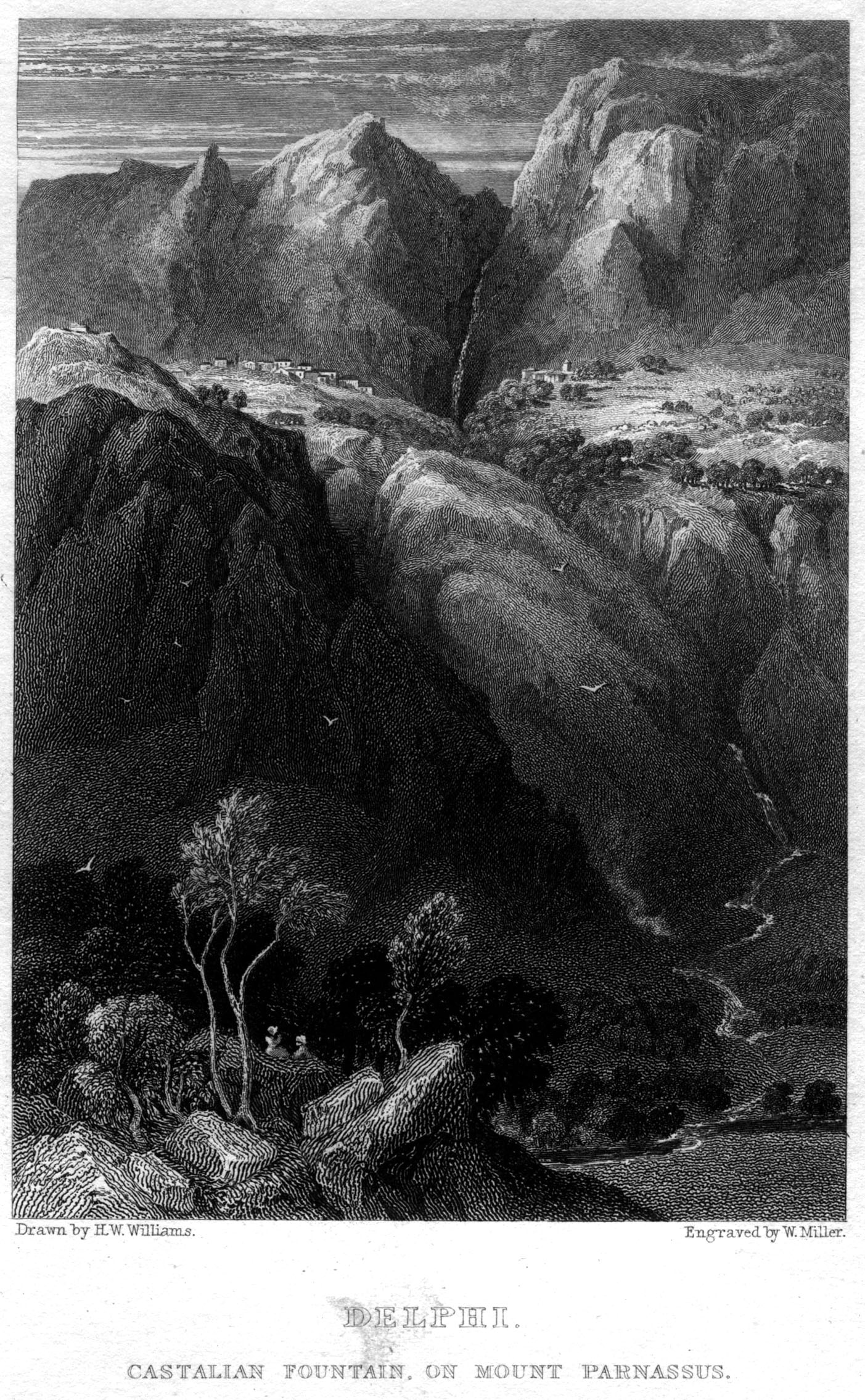 Delphi, Castalian Fountain, on Mount Parnassus engraving by William Miller after H W Williams (Miller paid £12-12-0 in v 1824 for engraving), published in Select Views In Greece With Classical Illustrations. Williams, Hugh William. London: Longman Rees Orme Brown and Green; and Adam Black. 1829